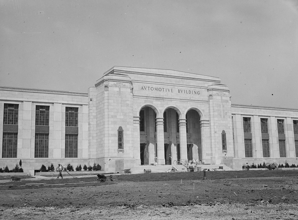 Main Entrance, 1929